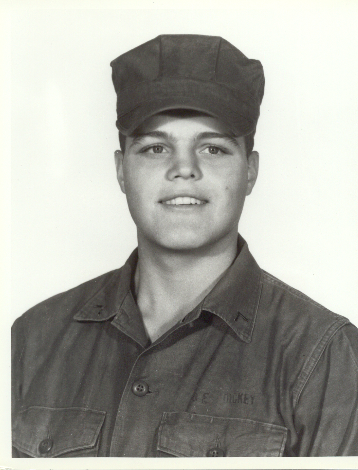 Douglas E. Dickey, USMC, KIA in Vietnam, awarded the Medal of Honor; image from official Marine Corps biography